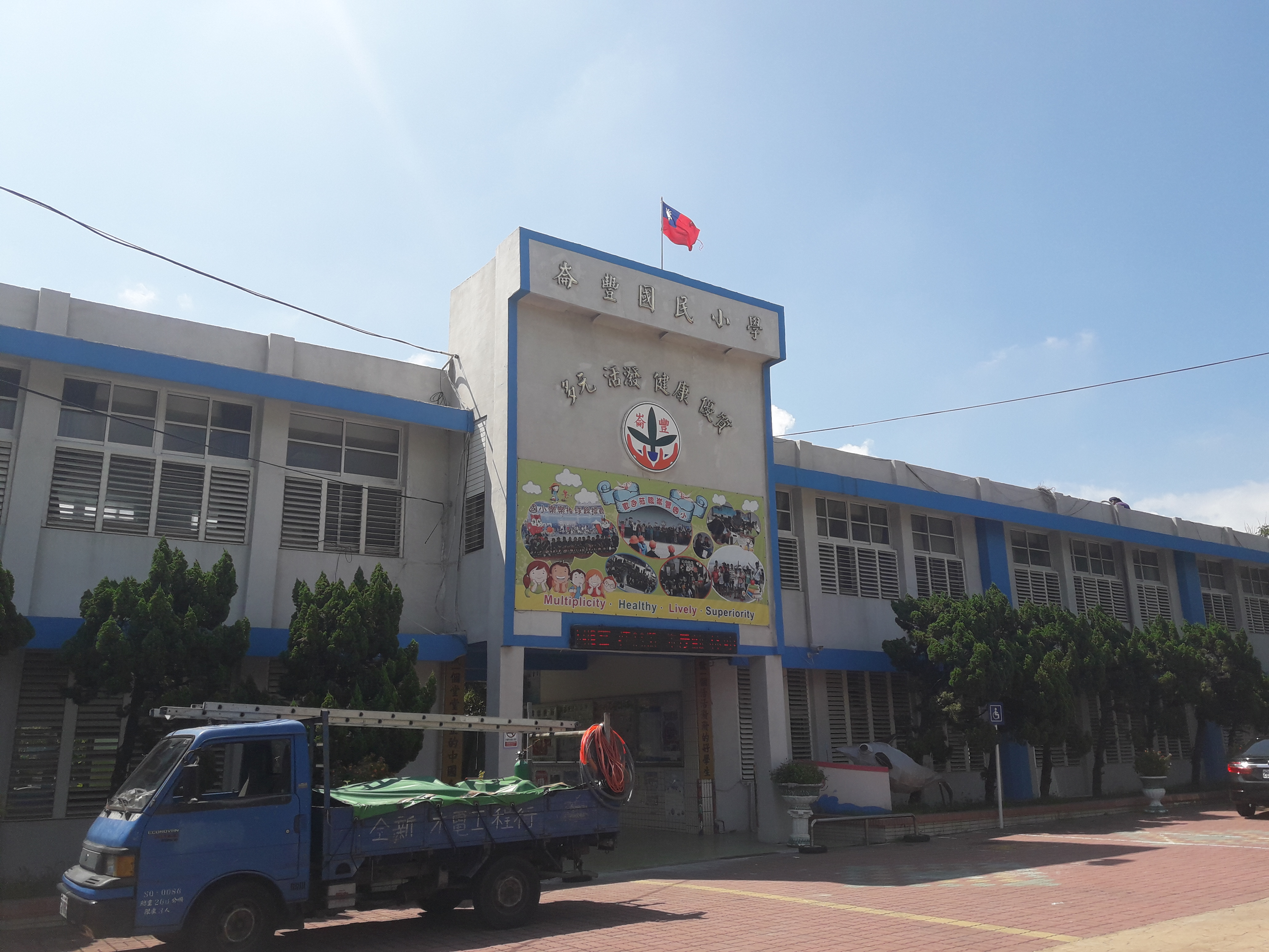 West Building of Lunfeng Elementary School, which located in Taixi Township, Yunlin County, Taiwan. Taken on 9 July, 2018.中文（台灣）: 中華民國臺灣省雲林縣臺西鄉崙豐國民小學西棟教室。攝於2018年7月9日。